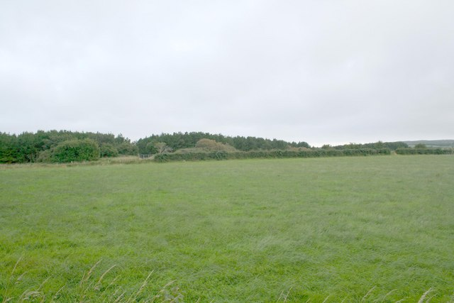 Araboy. Looking over grassland and woodland from the Bushmills to Ballycastle road.